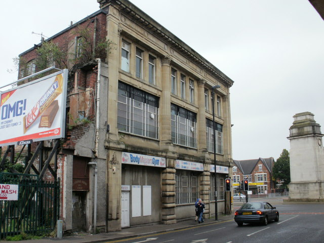 Bodymasters Gym, Newport Bodymasters Gym and Newport Fitness Centre, located at 1 Caerleon Road, on the corner of East Usk Road and adjacent to the Cenotaph.